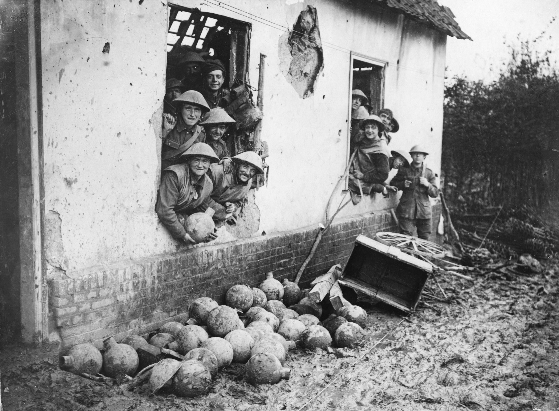 IWM caption : "Soldiers of 111 Brigade, 37th Division, pose for the camera, as they look through the windows of a ruined house in Hamel. Some are holding bombs, a stack of which can be seen on the ground beside the house". Comment : The bombs for the 2 inch Medium Mortar date this as mid 1916 to mid 1917, and "Hamel" would refer to Beaumont-Hamel which was captured during the Battle of the Ancre 13-18 November 1916, in which the 37th Division participated.